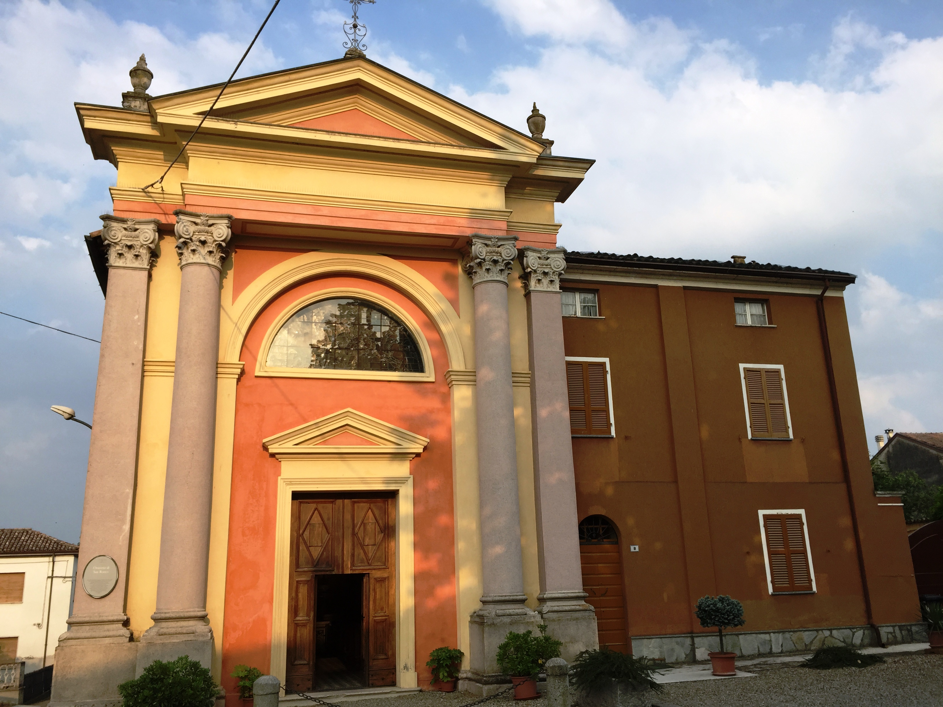 Saint Rocco Church - Sarmato